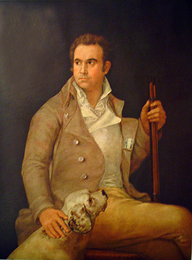 Portrait of Don Antonio de Porcel